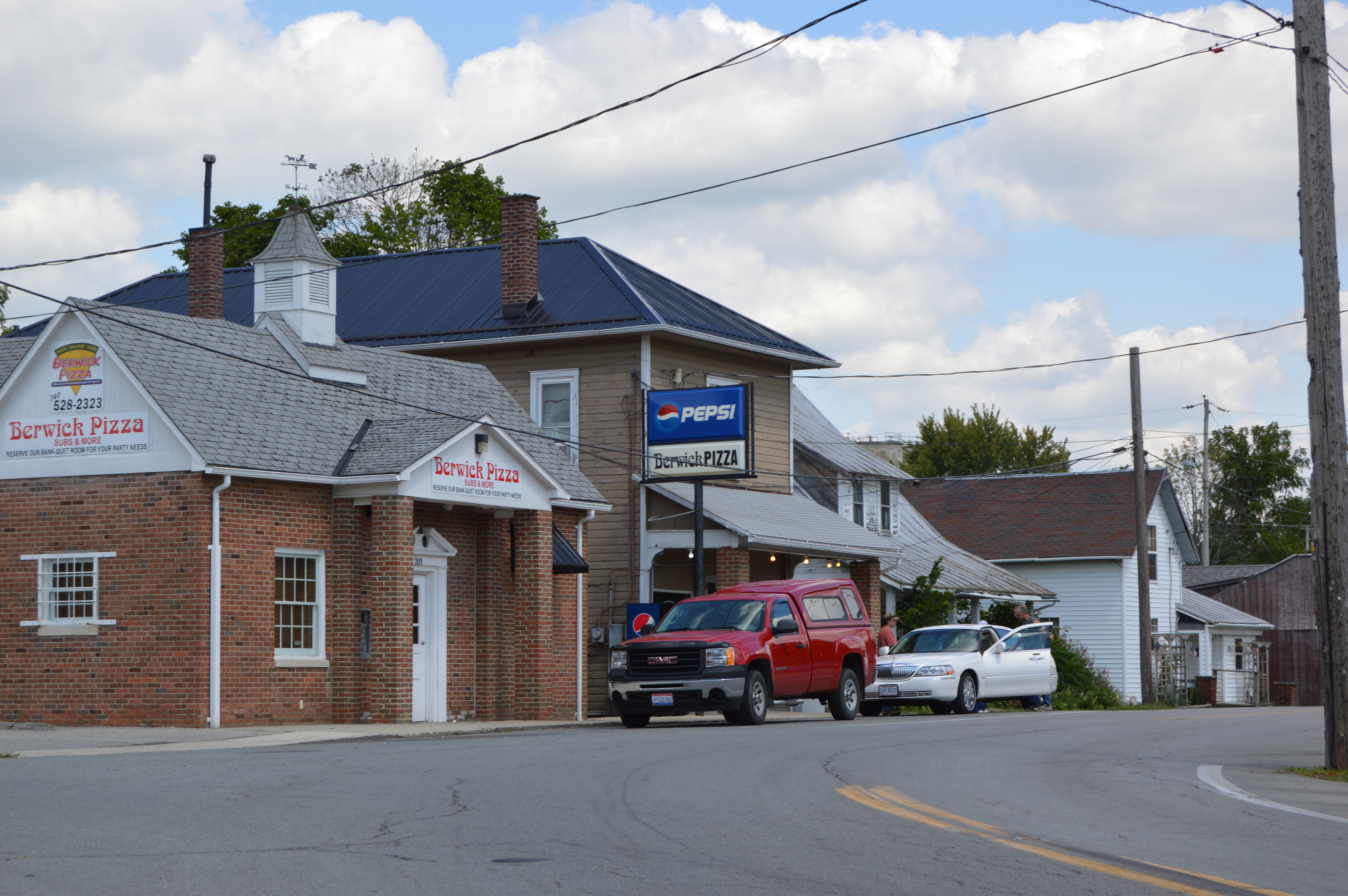 Looking northward on Main Street (State Route 739 to the Mill Street intersection in central Green Camp, Ohio, United States.